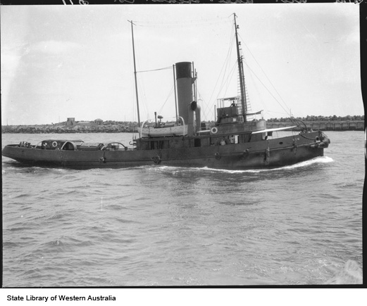 Black and white photographic print of Adelaide Steamship Company vessel ST Uco in Fremantle Harbour c. 1929.